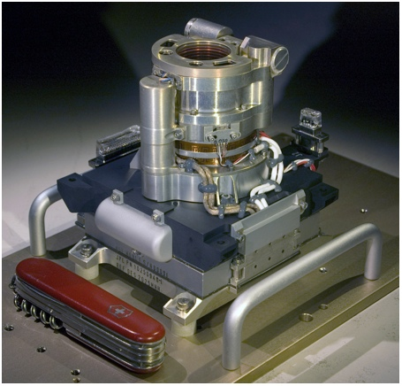 The Mars Hand Lens Imager (MAHLI)